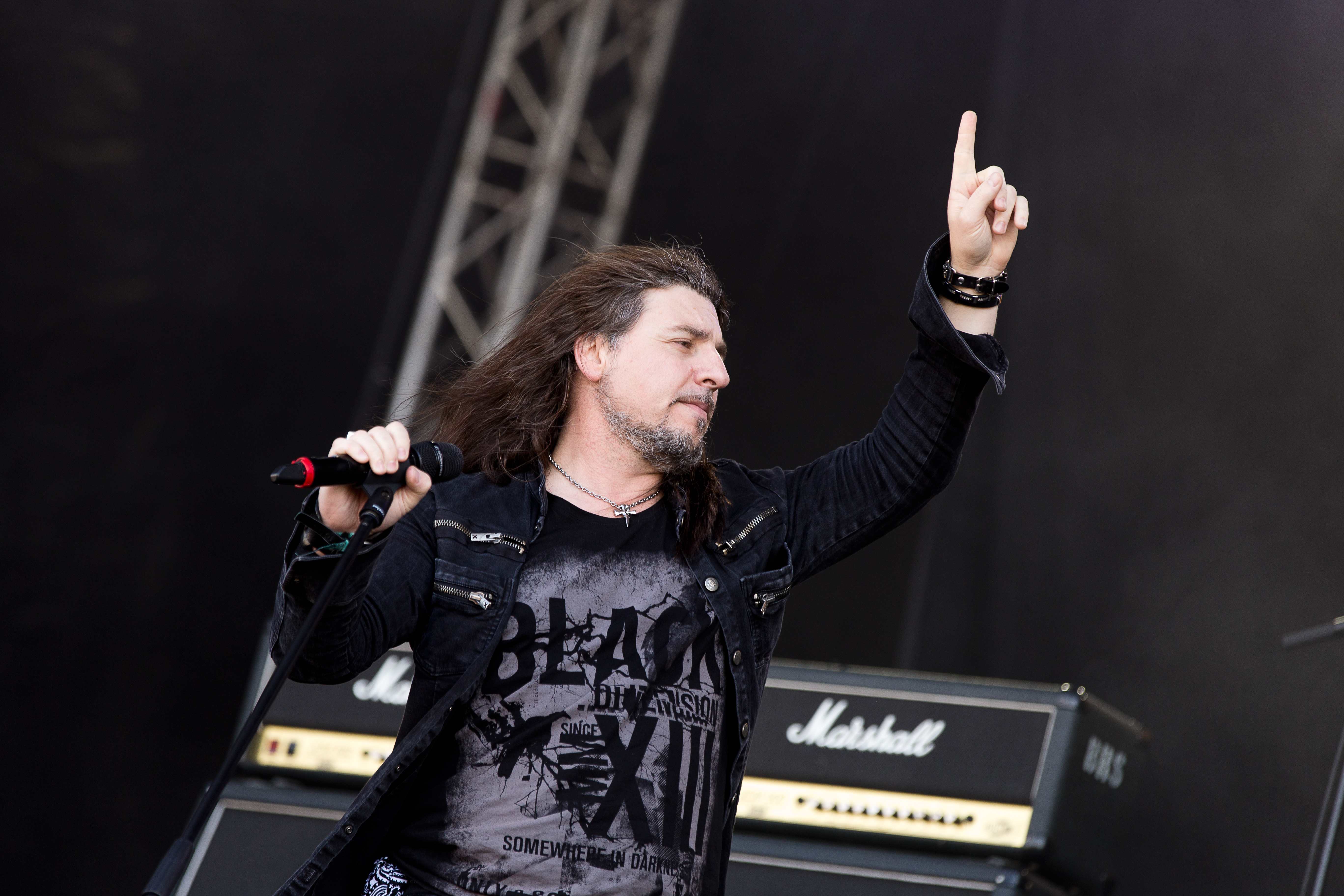 The Swedish stoner metal band Spiritual Beggars at the Rockharz Open Air 2016 in Ballenstedt/Germany.